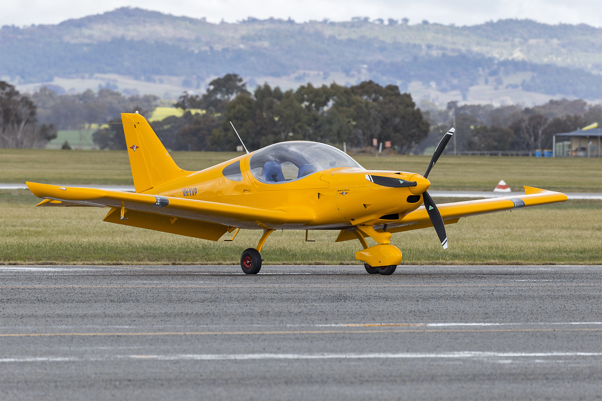 Soar Aviation (VH-YVP) BRM Aero Bristell NG 5 LSA at Wagga Wagga Airport.